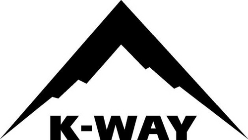 The logo of South African adventure clothing brand K-Way